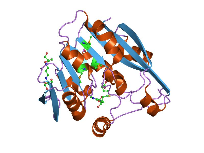 Cartoon representation of the molecular structure of protein registered with 2bzg code.